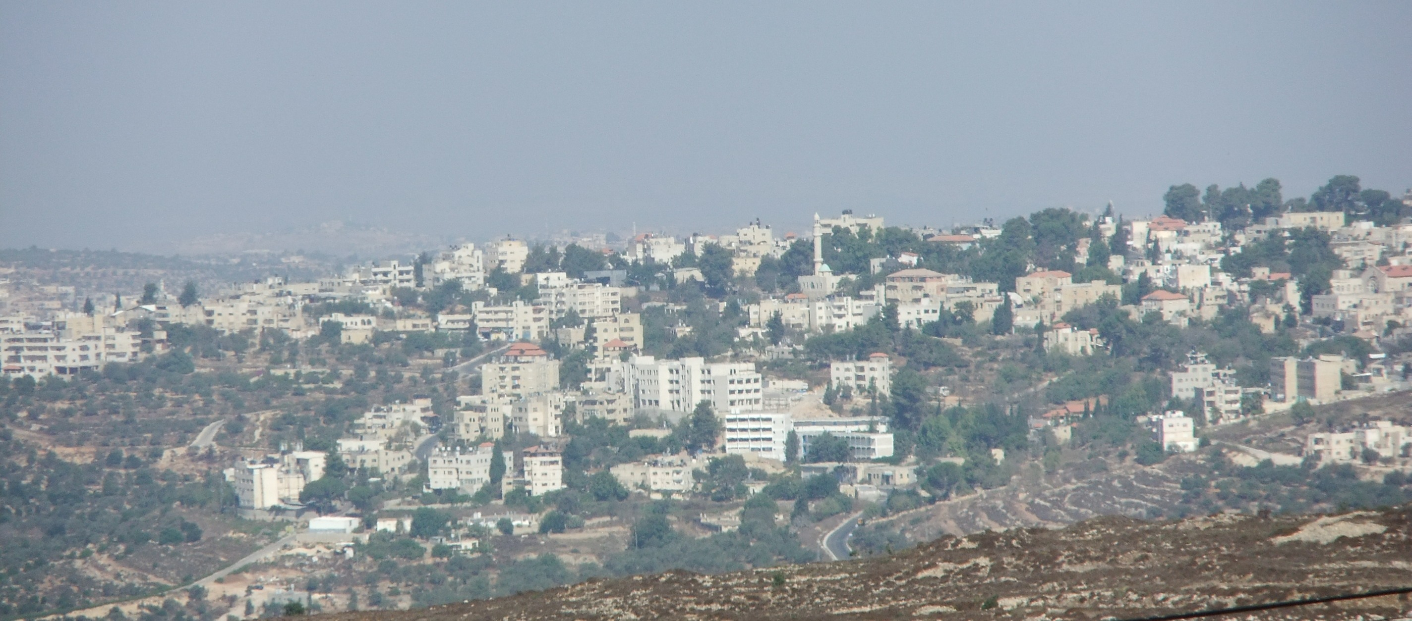 Birzeit from the Artis